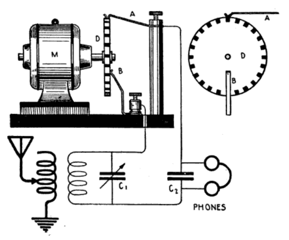 Schematic diagram of a radio receiver from the first decade of the 1900s using a "tikker", to receive radiotelegraph transmissions. Around 1905, continuous wave (CW) radio transmitters began replacing the previous spark-gap transmitters which generated damped waves. The "tikker" or "ticker" invented by Valdemar Poulsen in 1902 was one of the first devices that could make CW Morse code transmissions audible. It consisted of an interrupter such as a motor driven contact wheel which had metal contacts spaced around its rim, which periodically interrupted the carrier wave from the tuned circuit, producing a tone in the earphones. The tikker was only used for a short time, until Fessenden's heterodyne receiver replaced it around 1913.